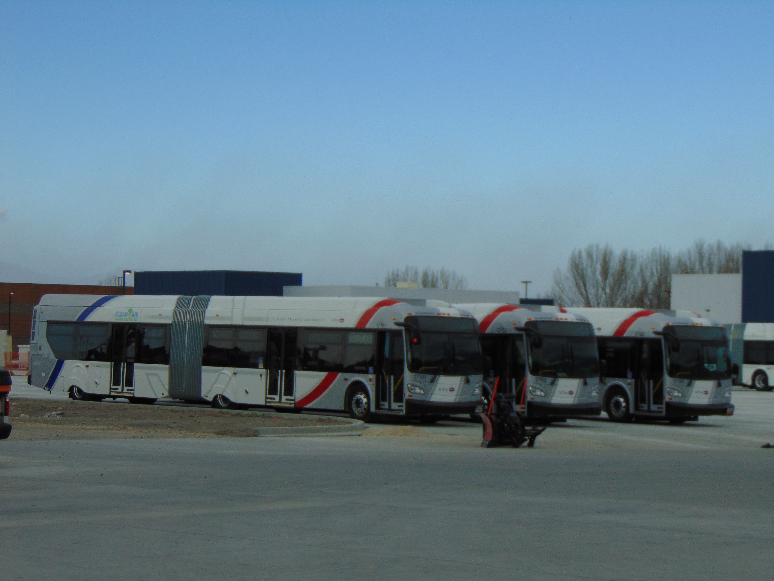 The first three of the new New Flyer XDE60 buses for Utah Transit Authority's Provo Orem MAX bus rapid transit line at the Timpanogos Bus Maintenance Facility in Orem, Utah, December 2017.